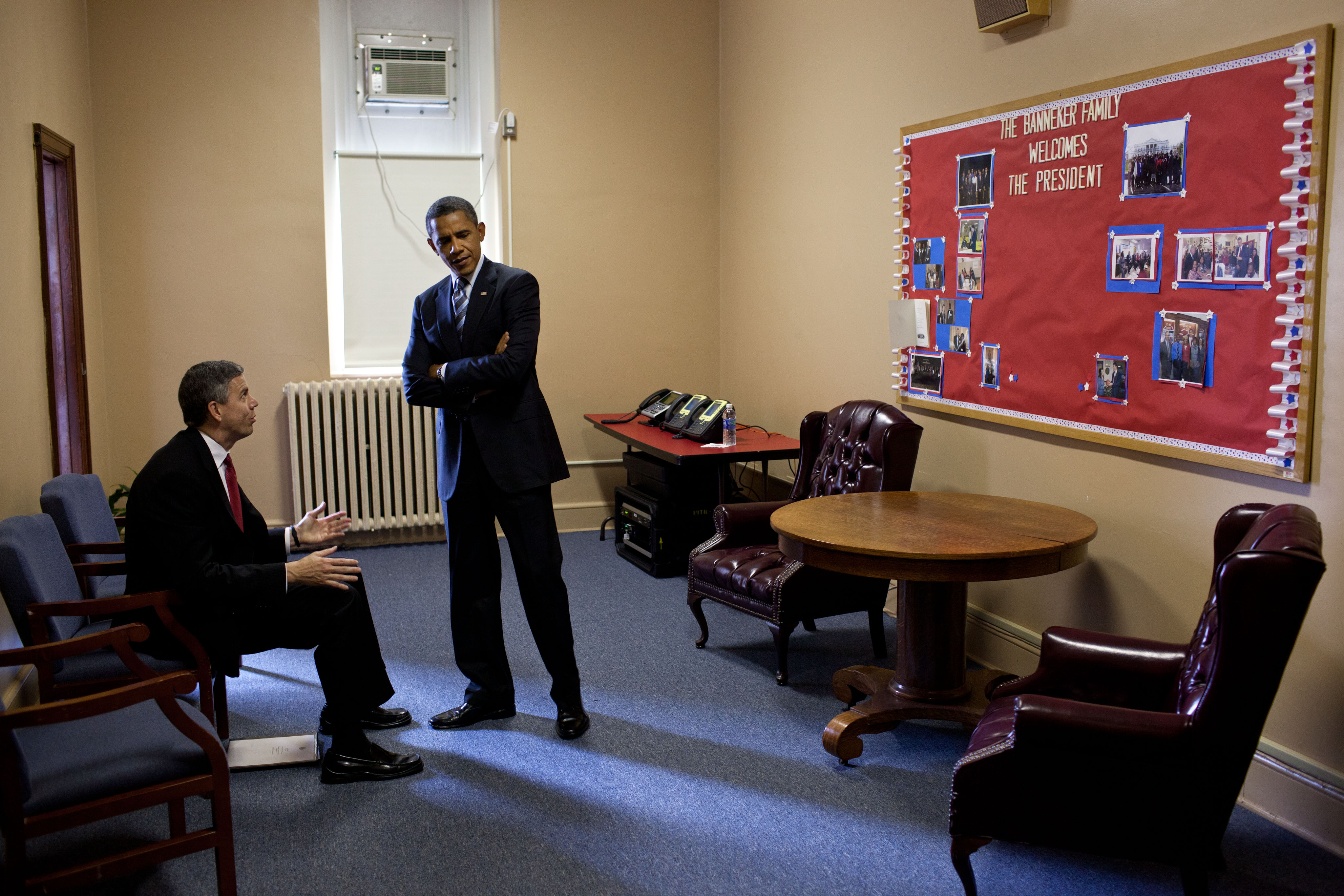 President Barack Obama and Education Secretary Arne Duncan talk in a hold area before the President delivers his third annual back-to-school speech at Benjamin Banneker Academic High School in Washington, D.C. Sept. 28, 2011. (Official White House Photo by Pete Souza)